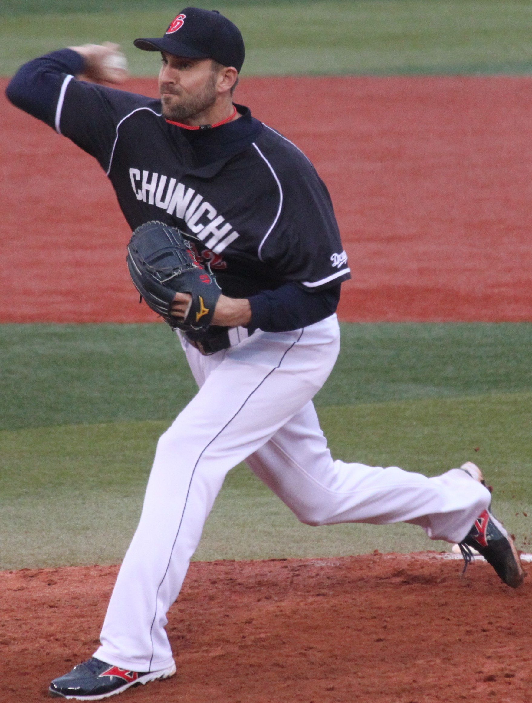 Brad Bergesen, pitcher of the Chinichi Dragons, at Yokohama Stadium.